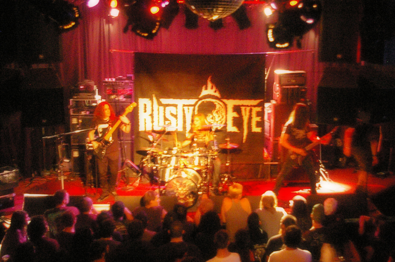 Rusty Eye performing live at the Sunset Strip Music Festival on 18th August 2011